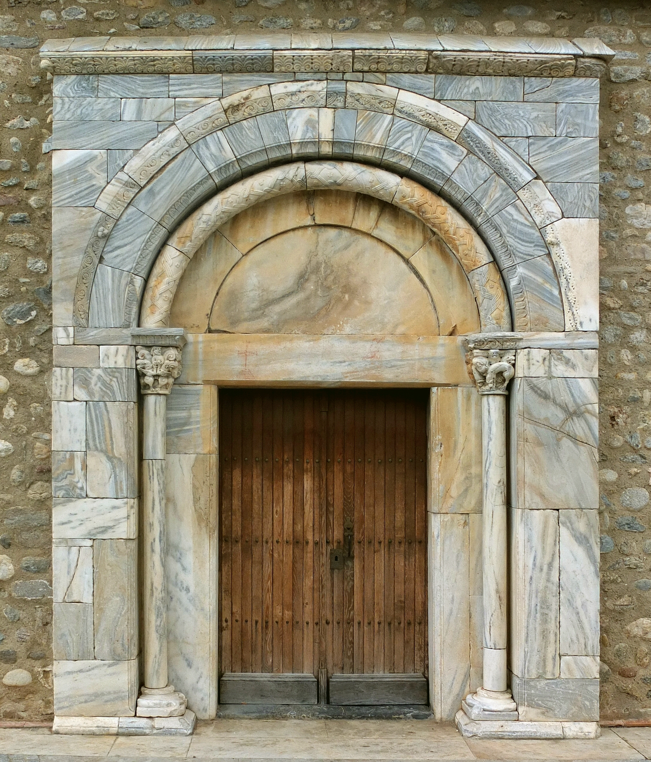 Portal of church Sainte-Marie de Brouilla (12th century), France